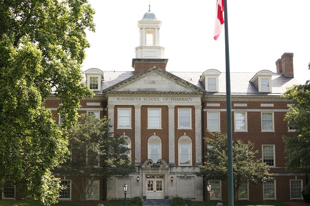 View of the entrance to the McWhorter School of Pharmacy, located on the campus of Samford University in Birmingham, Al